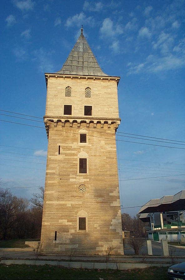 Edirne Tower